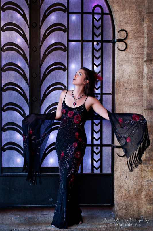 Crystal Bright from Crystal Bright & The Silver Hands